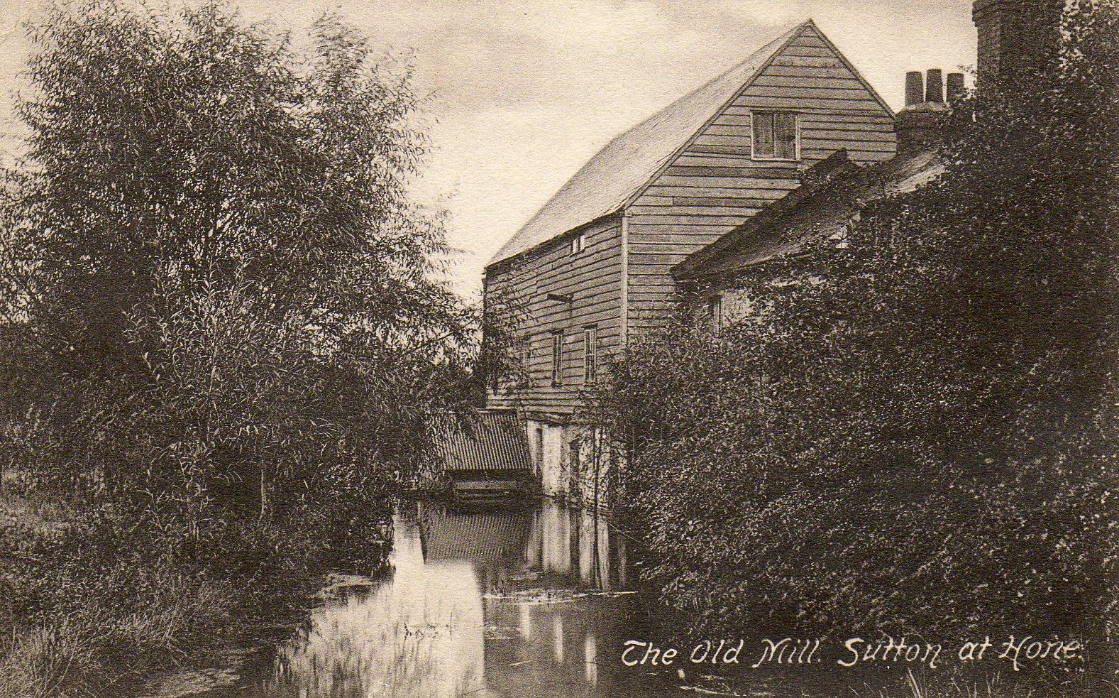 Sutton at Hone watermill. Postcard unused but c1910s